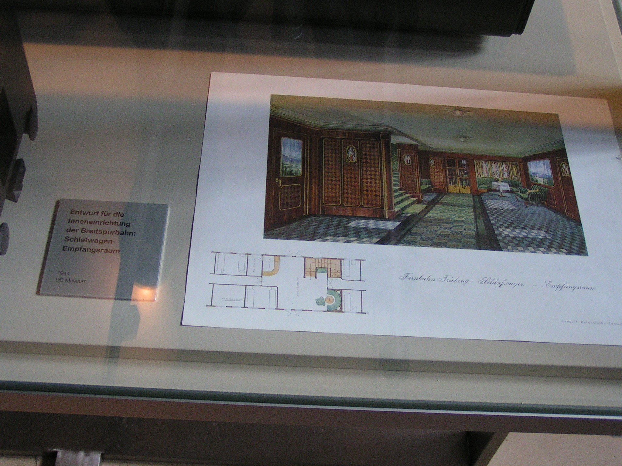 Interior of the "Breitspurbahn" (broad gauge railroad) planned during WW II by Nazi Germany, on display at DB museum, Nuremberg